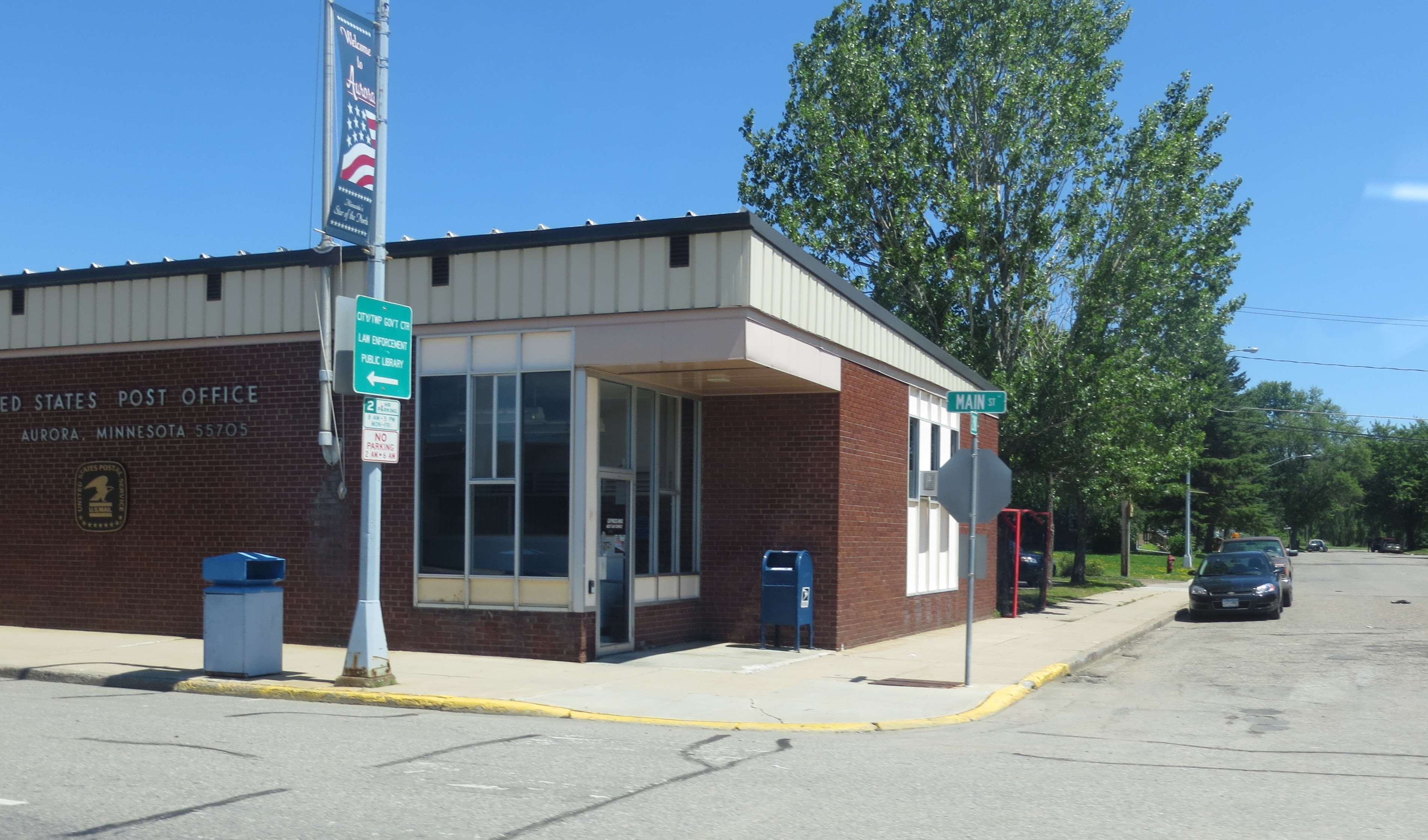 Aurora township of St Louis county, along county highway 135 / 100.